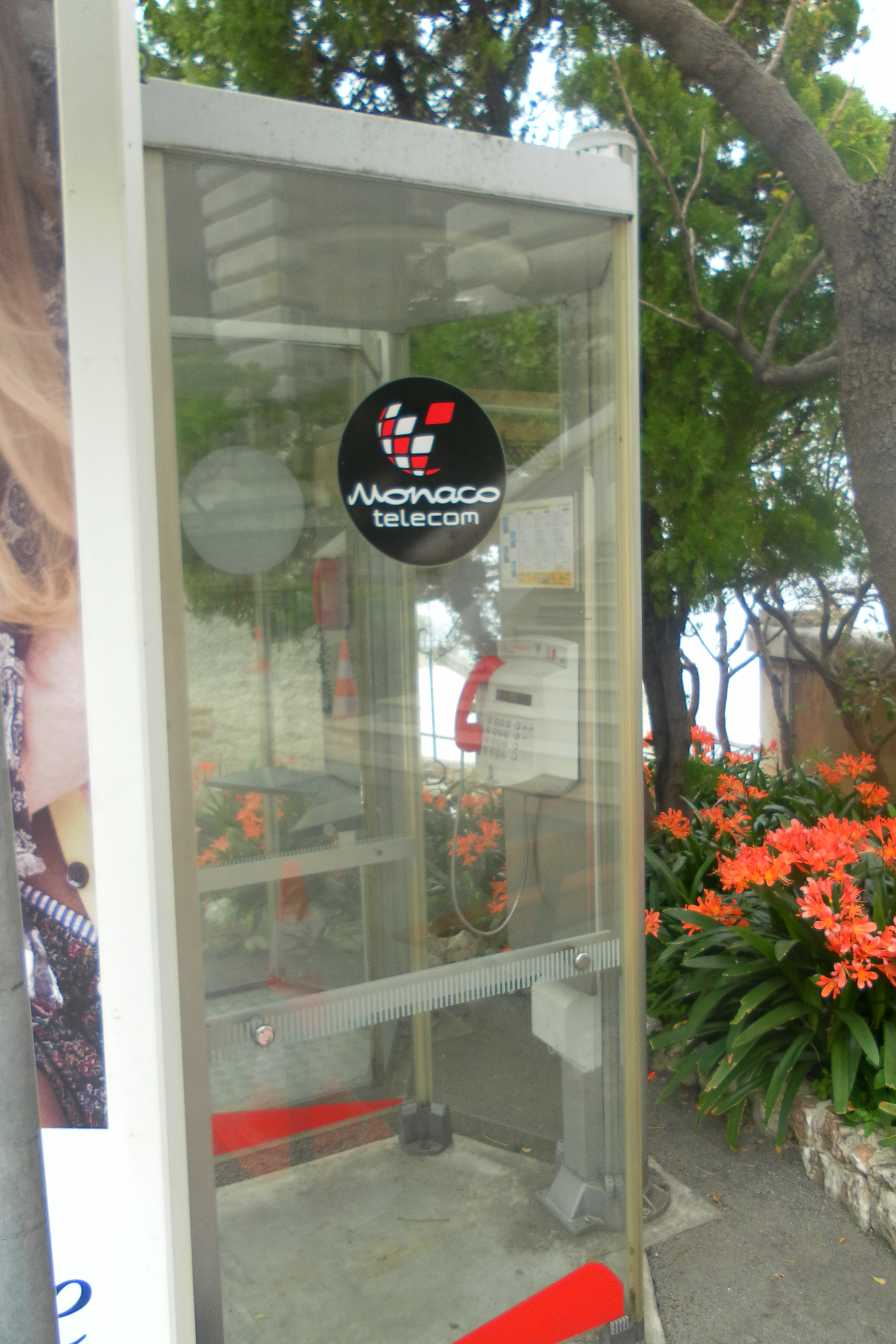 Telephone booths of Monaco Telecom in Monaco